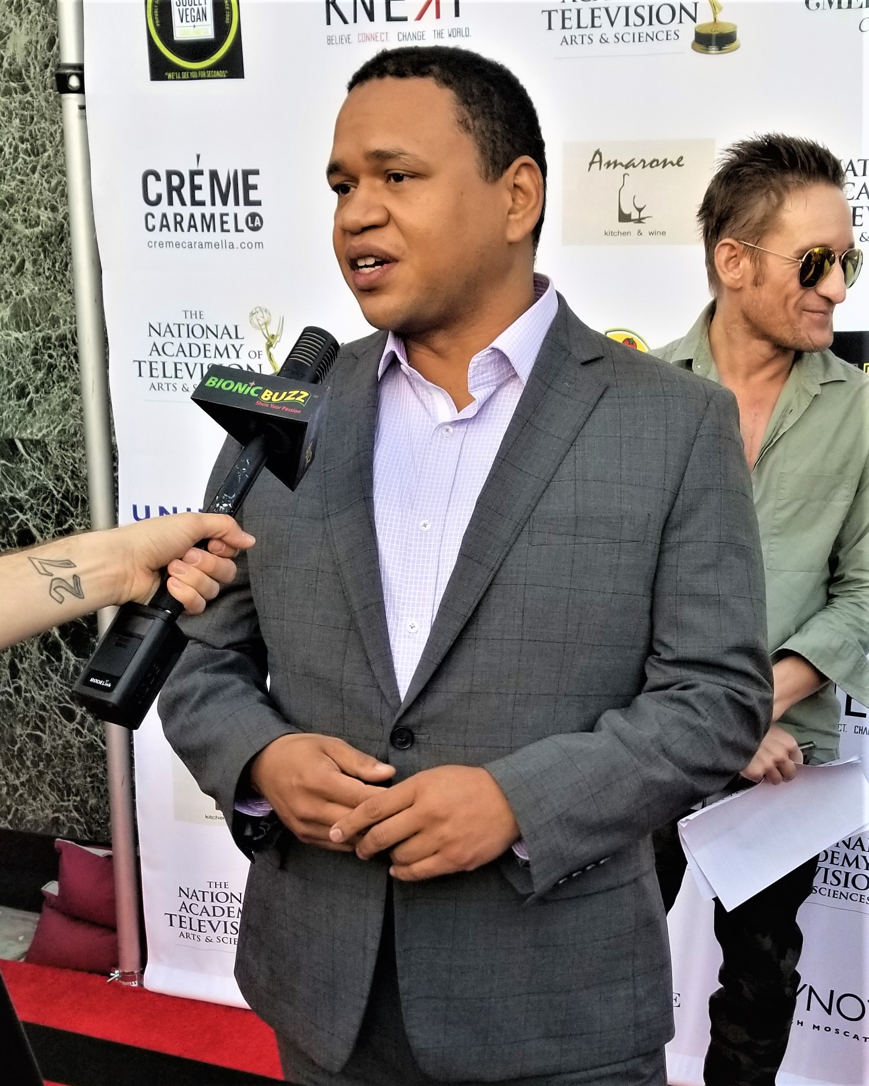 Broadcaster and producer Benjamin Bryant speaks to reporters on the red carpet of the 2018 Daytime Emmys nominee reception at the Hollywood Museum in Hollywood, California on April 25, 2018.